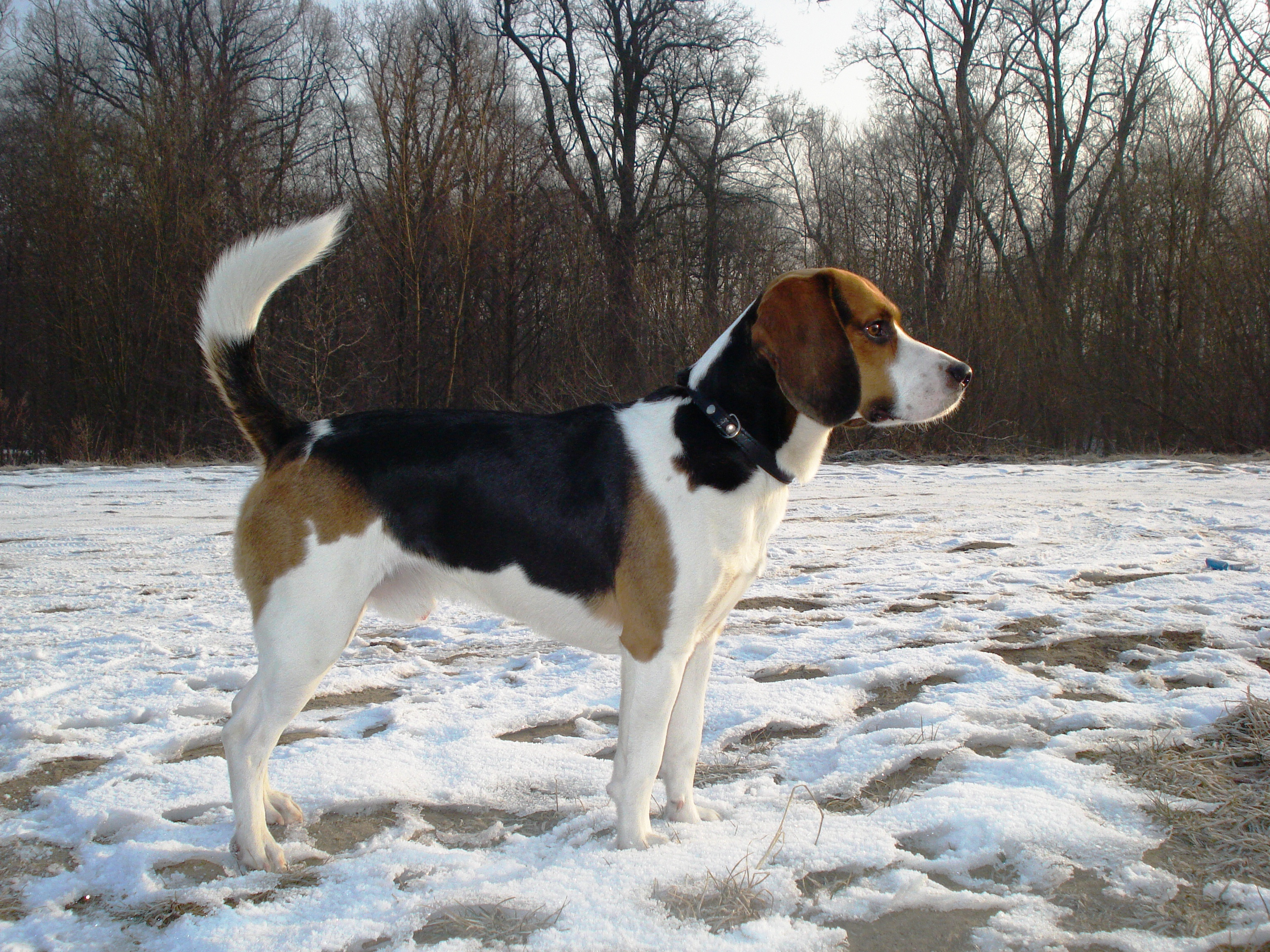 Beagle-Harrier